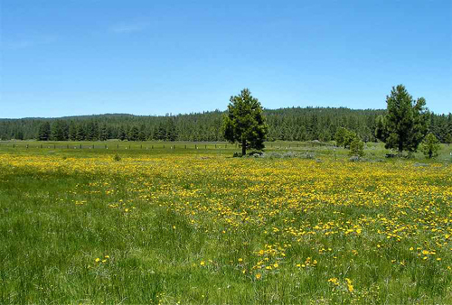 A meadow in Tahoe National Forest, California